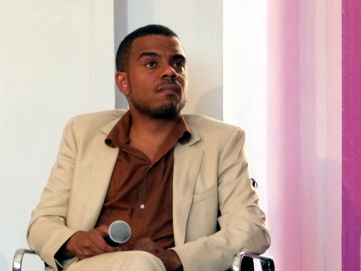 German literary critic René Aguigah at the Erlanger Poetenfest 2015